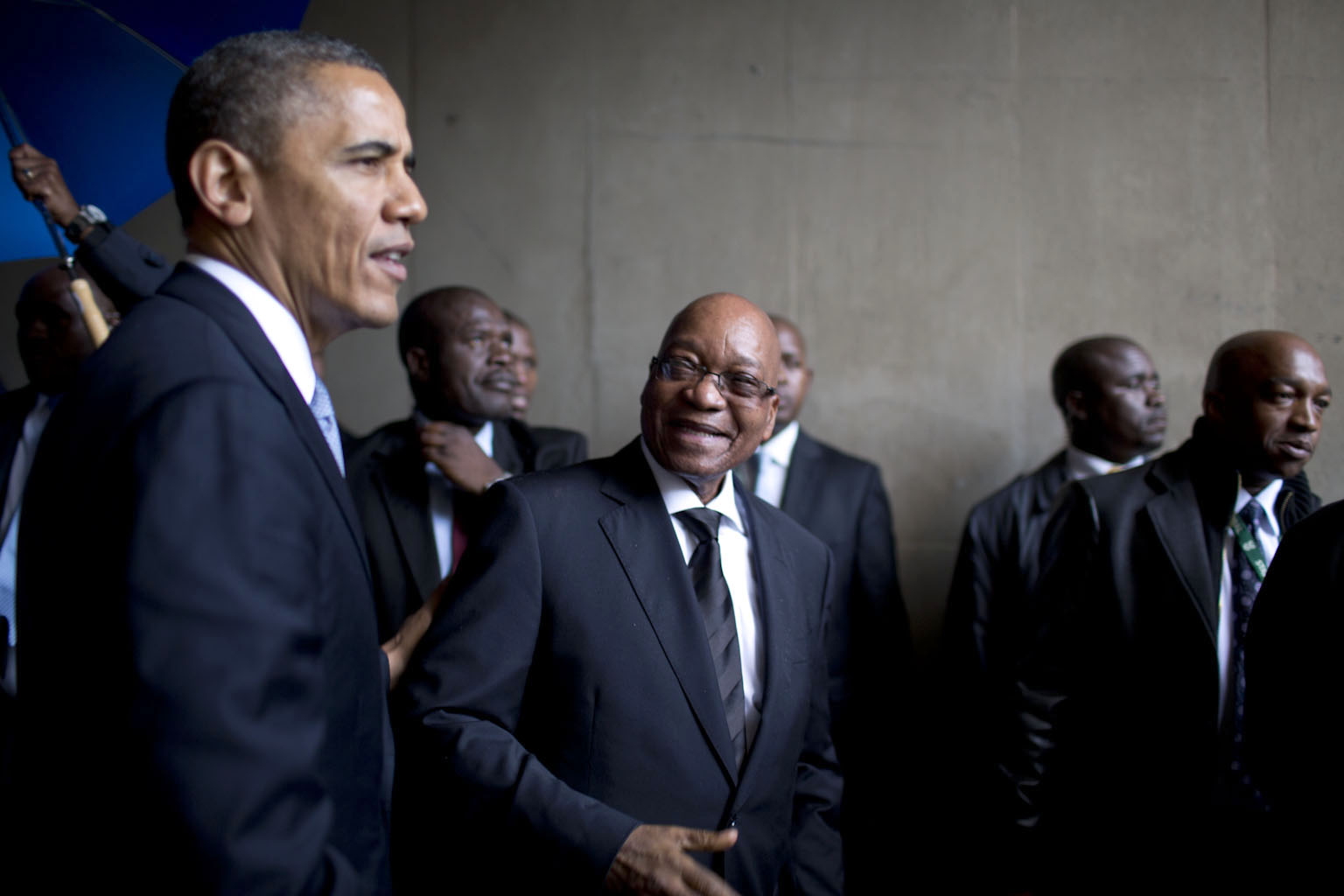 President Obama and President Jacob Zuma of South Africa wait to take the stage in a tunnel at the soccer stadium. (Official White House Photo by Pete Souza)